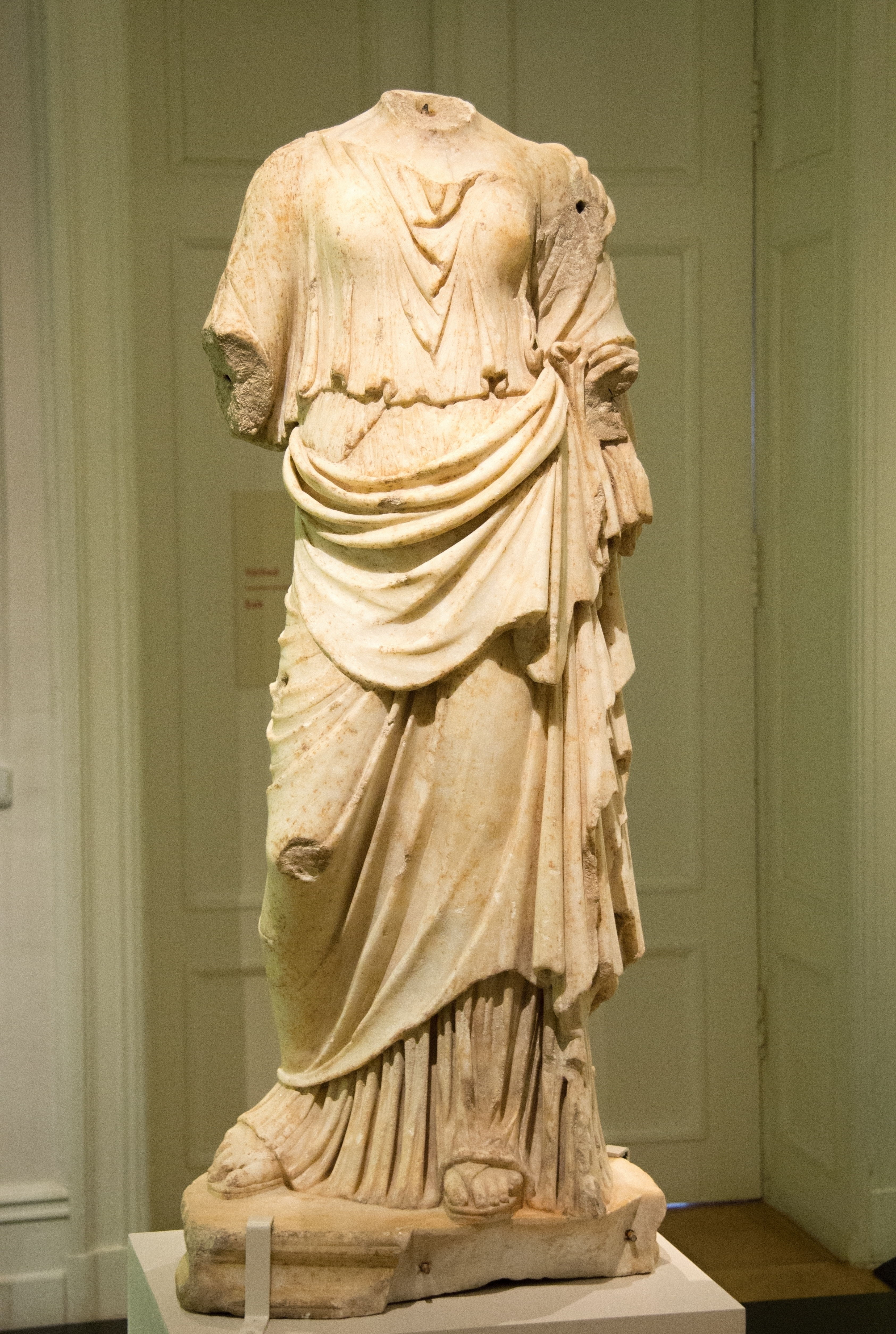 Goddess Nemesis. A miniaturized Roman replica of the cult statue of Nemesis, fashioned by Agorakritos for the city of Rhamnous in Attica in the 5th century BC. Work a Roman copyist from the 1st – 2nd century AD. NG Prague, Kinský Palace, NG P 5520.